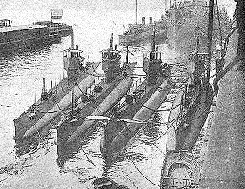 USS K-1, K-2, K-5, and K-6 submarines which reached the Azores in October 1917